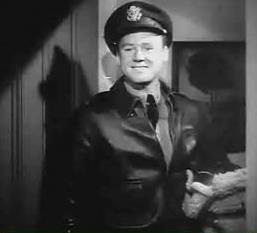 This screenshot shows Van Johnson in the trailer to the 1944 film Thirty Seconds Over Tokyo